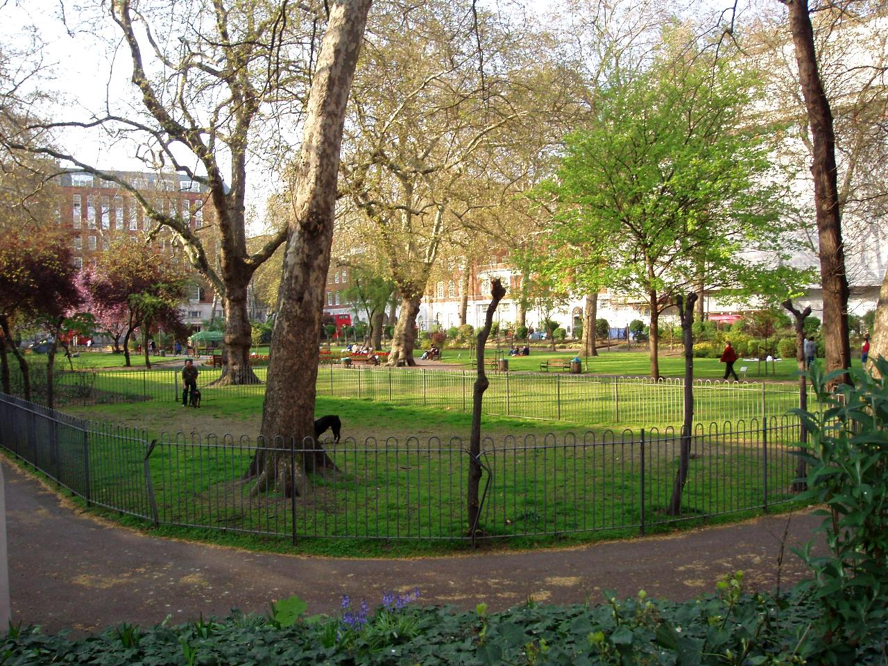 Pretty square in Bloomsbury. Photo taken April 2008. Owner: London Borough of Camden.